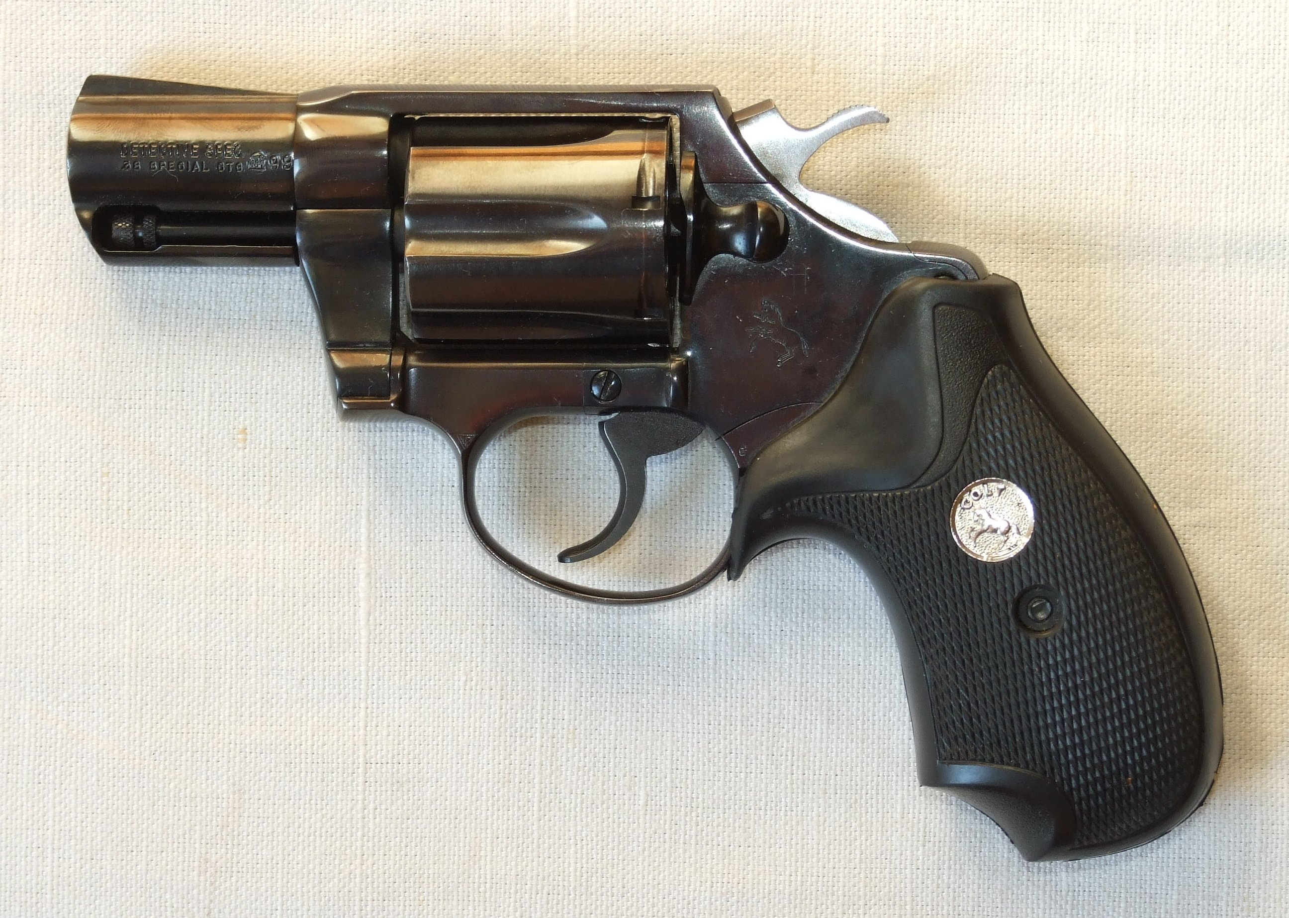 Revolver Colt Detective caliber 38 Special